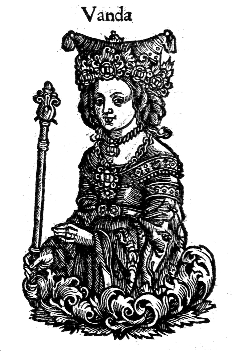 Illustration from Chronica Polonorum